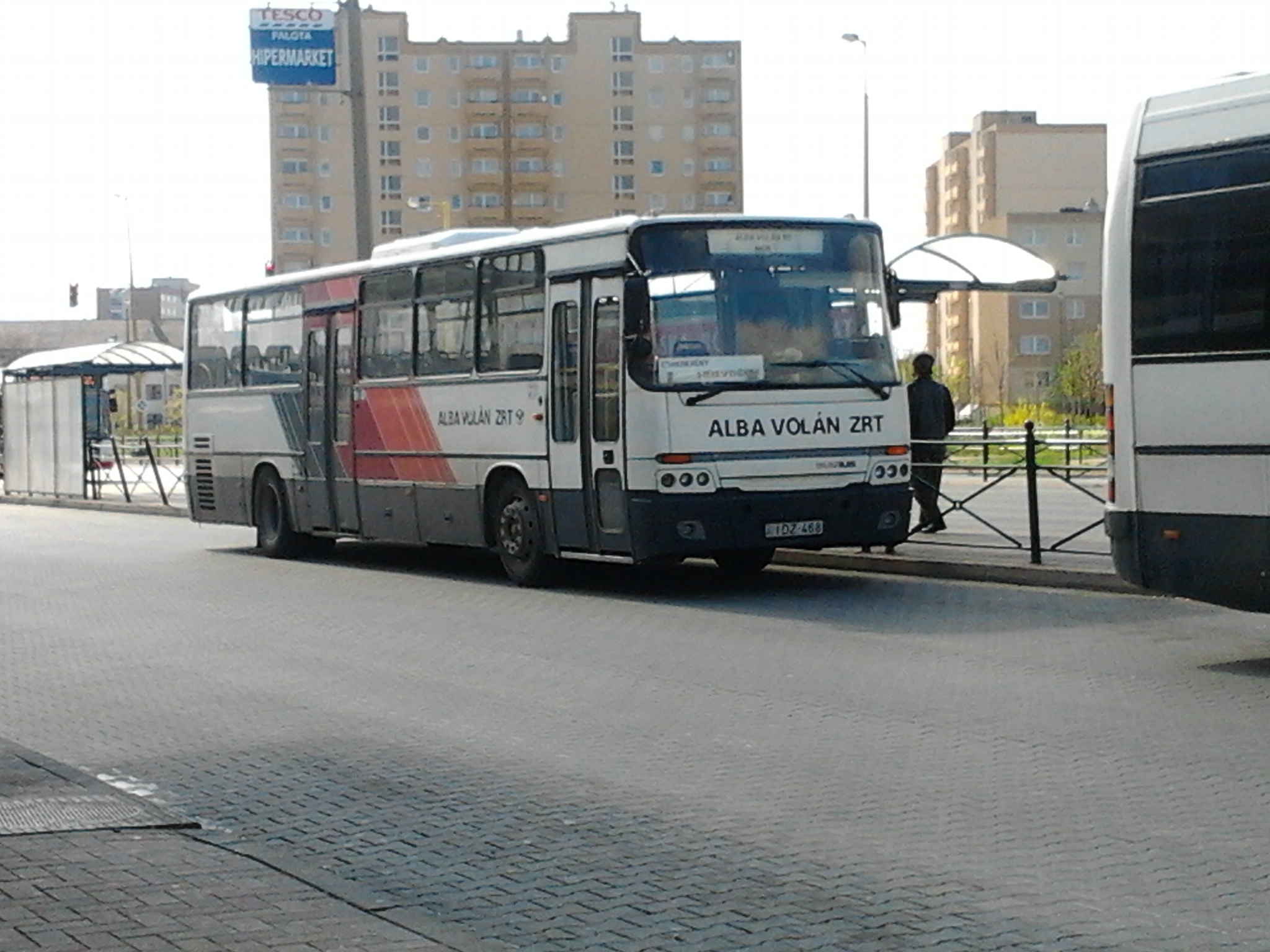 Ikarus C56 at Székesfehérvár, Hungary